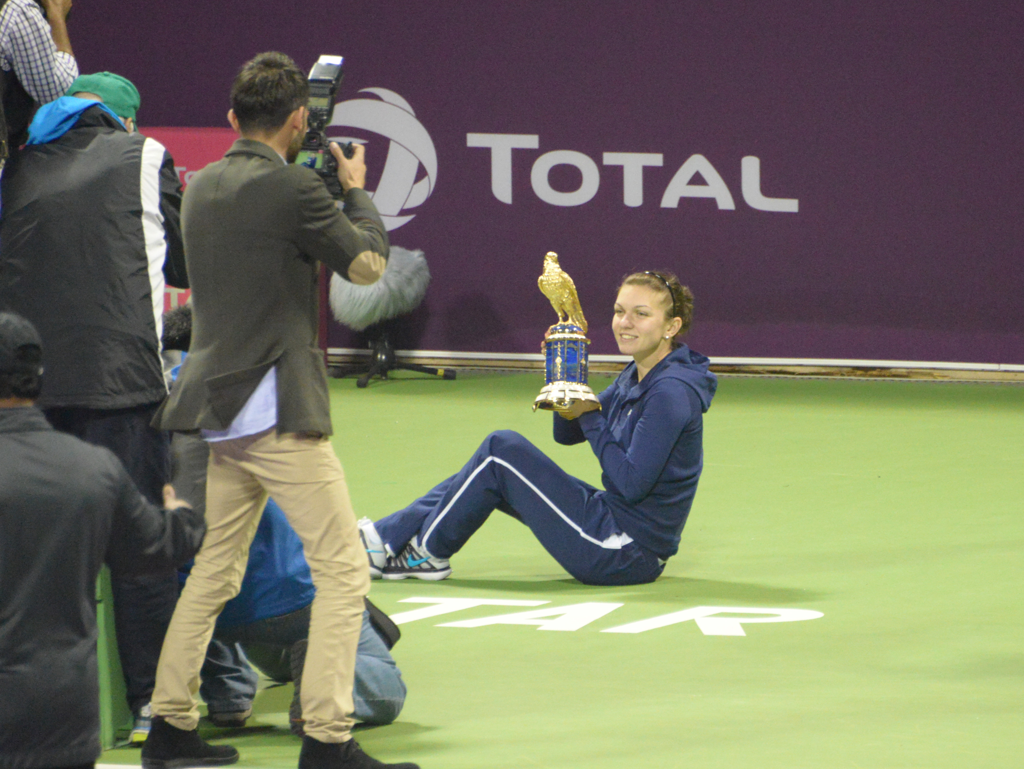 Simona Halep posing with the trophy for winning the 2014 Qatar Open